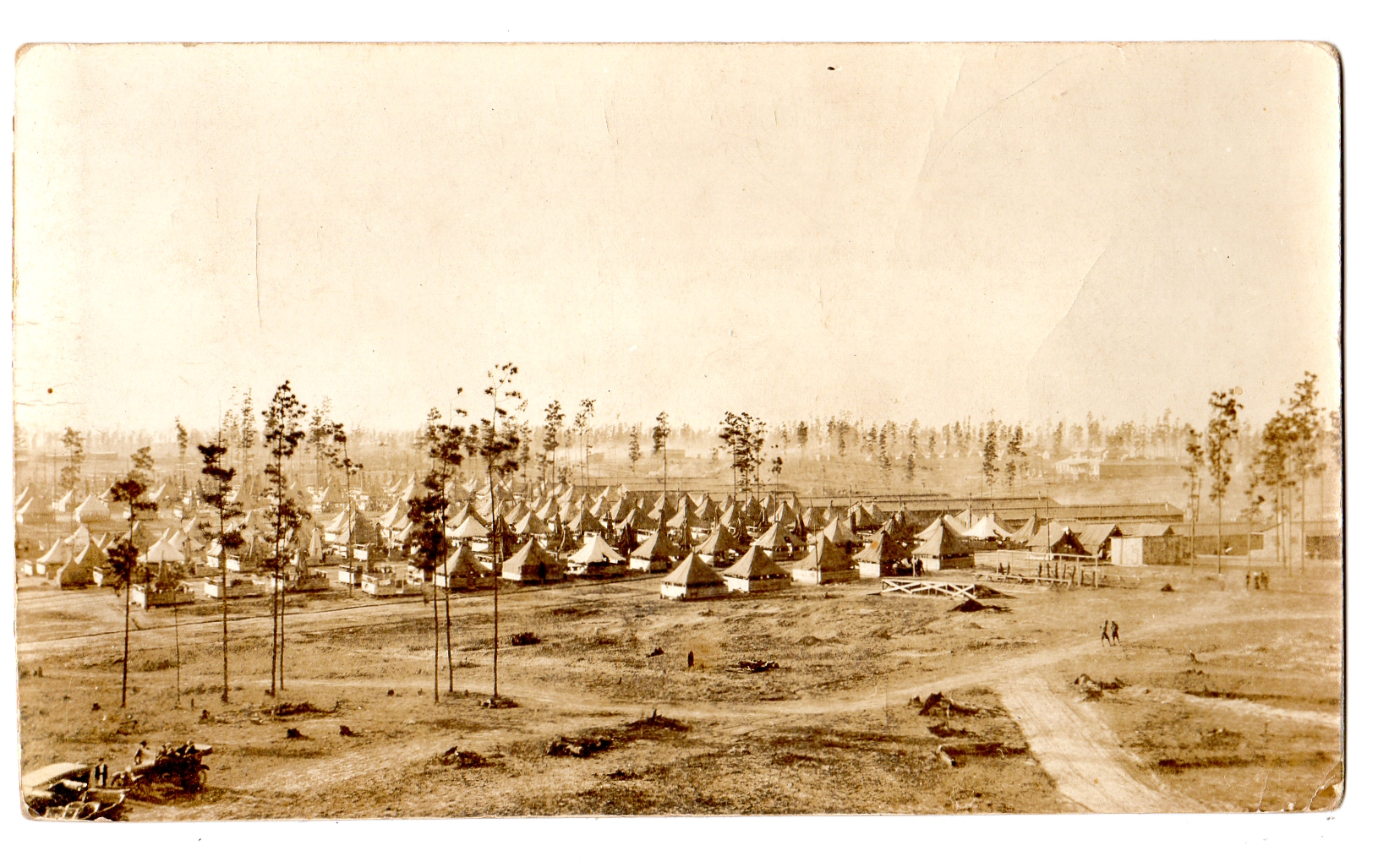 113th Engineer Camp site